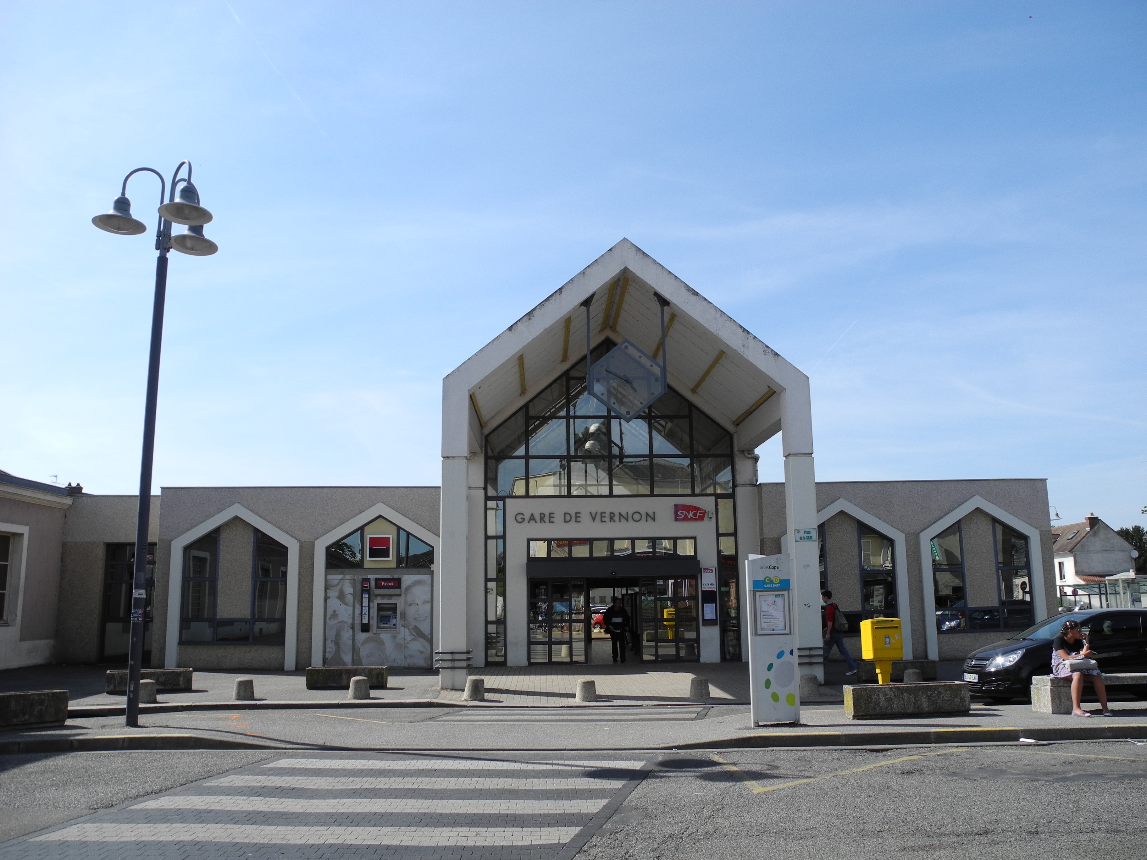 Railway station of Vernon (Eure) - France